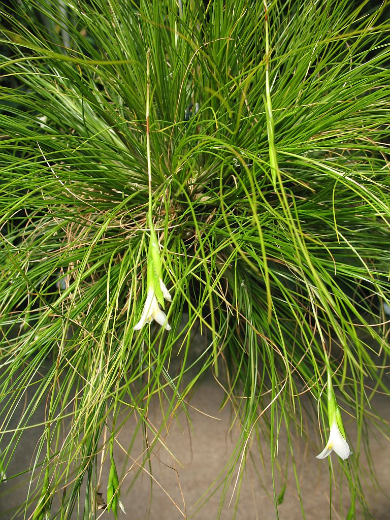 Tillandsia alvareziae, in cultivation at the Botanical Garden of Heidelberg, Germany.